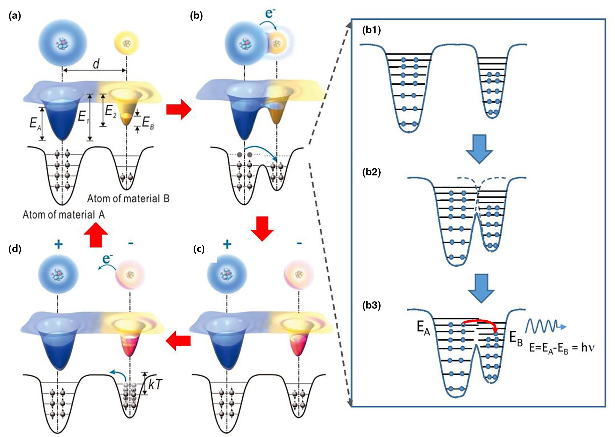 A generic electron-cloud-potential model is proposed to reveal the mechanism of the contact electrification.